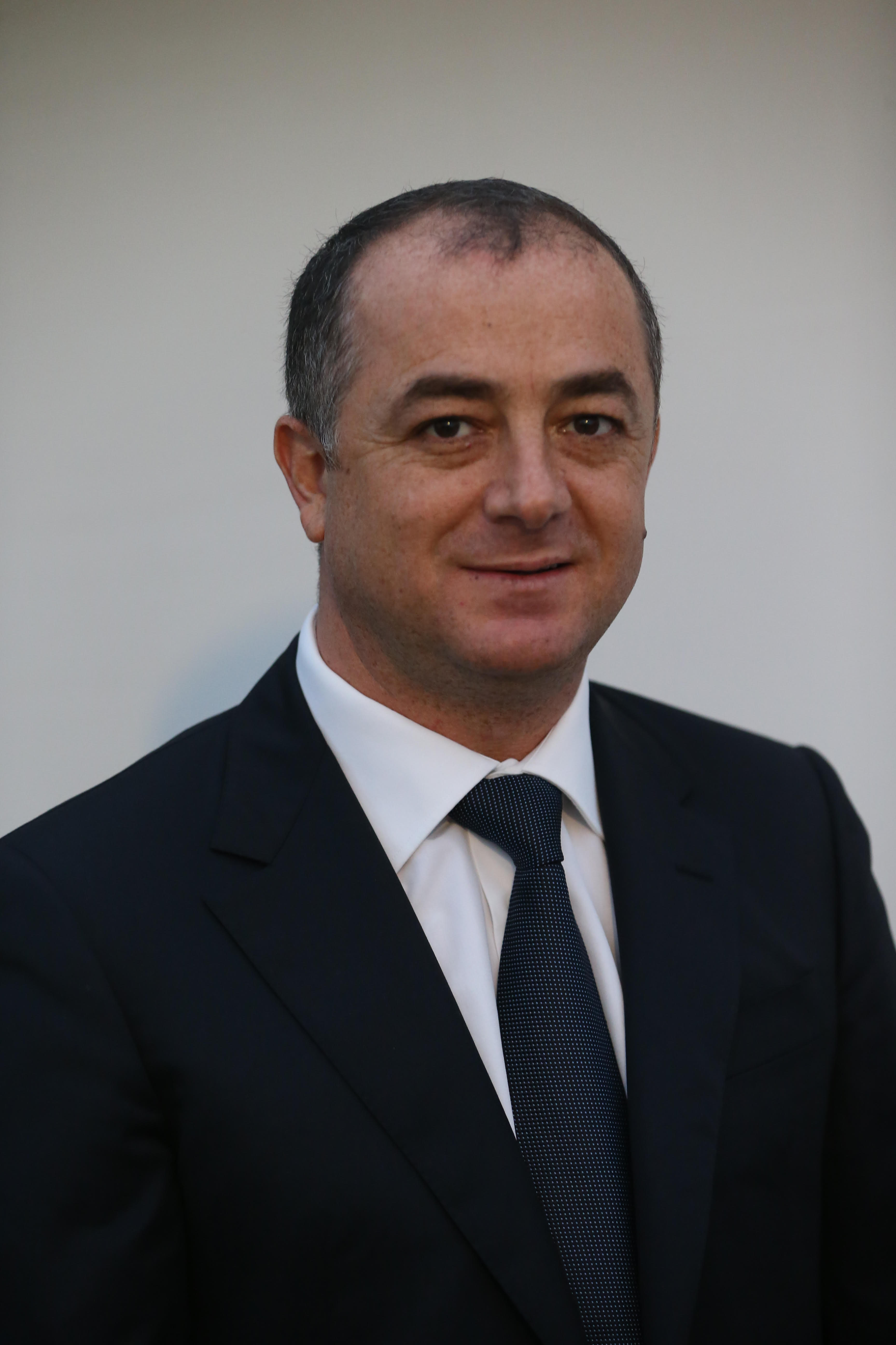 Photo